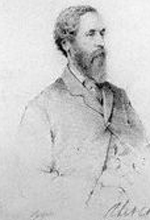 James Hamilton, 1st D\uke of Abercorn